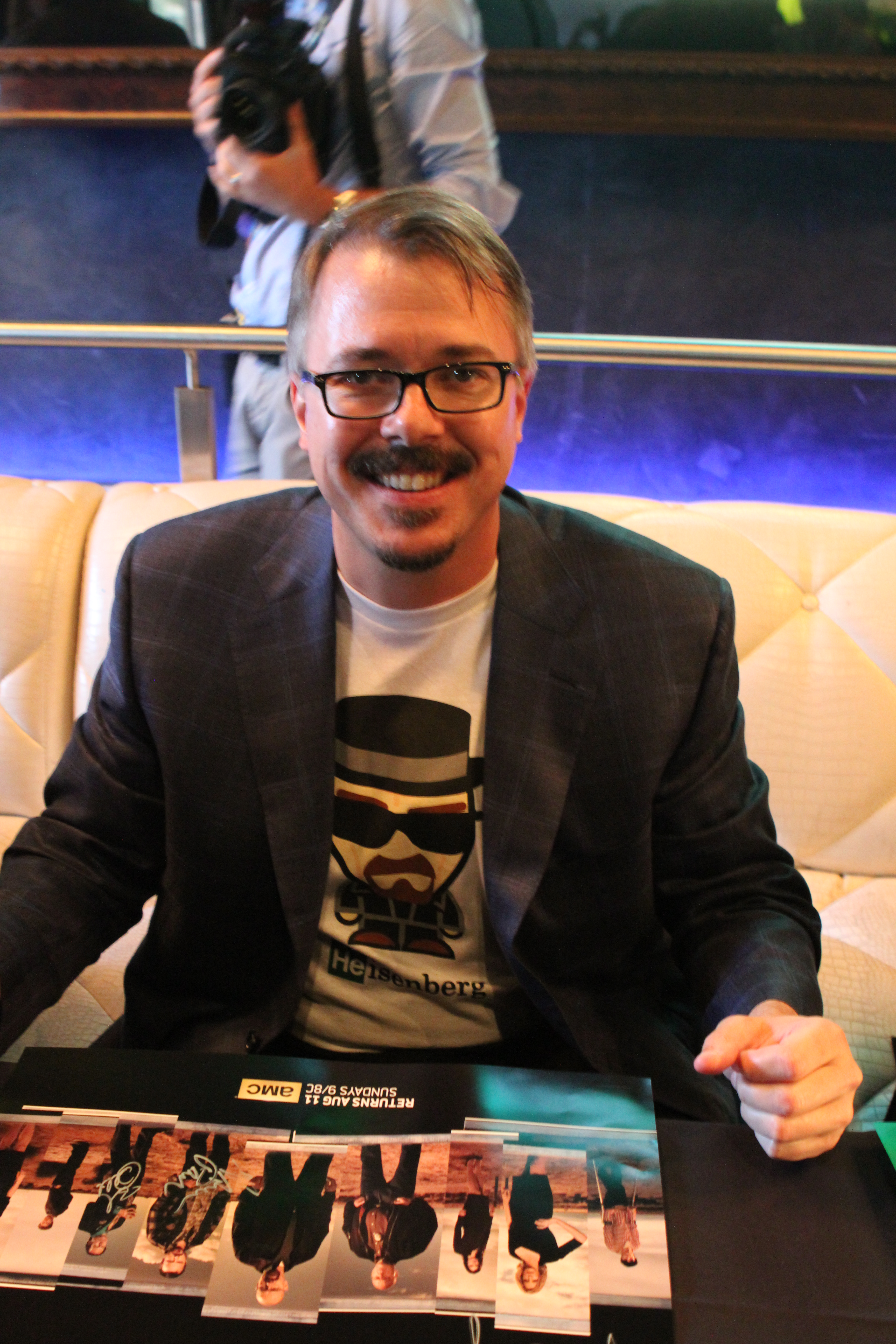 Comic-Con 2013